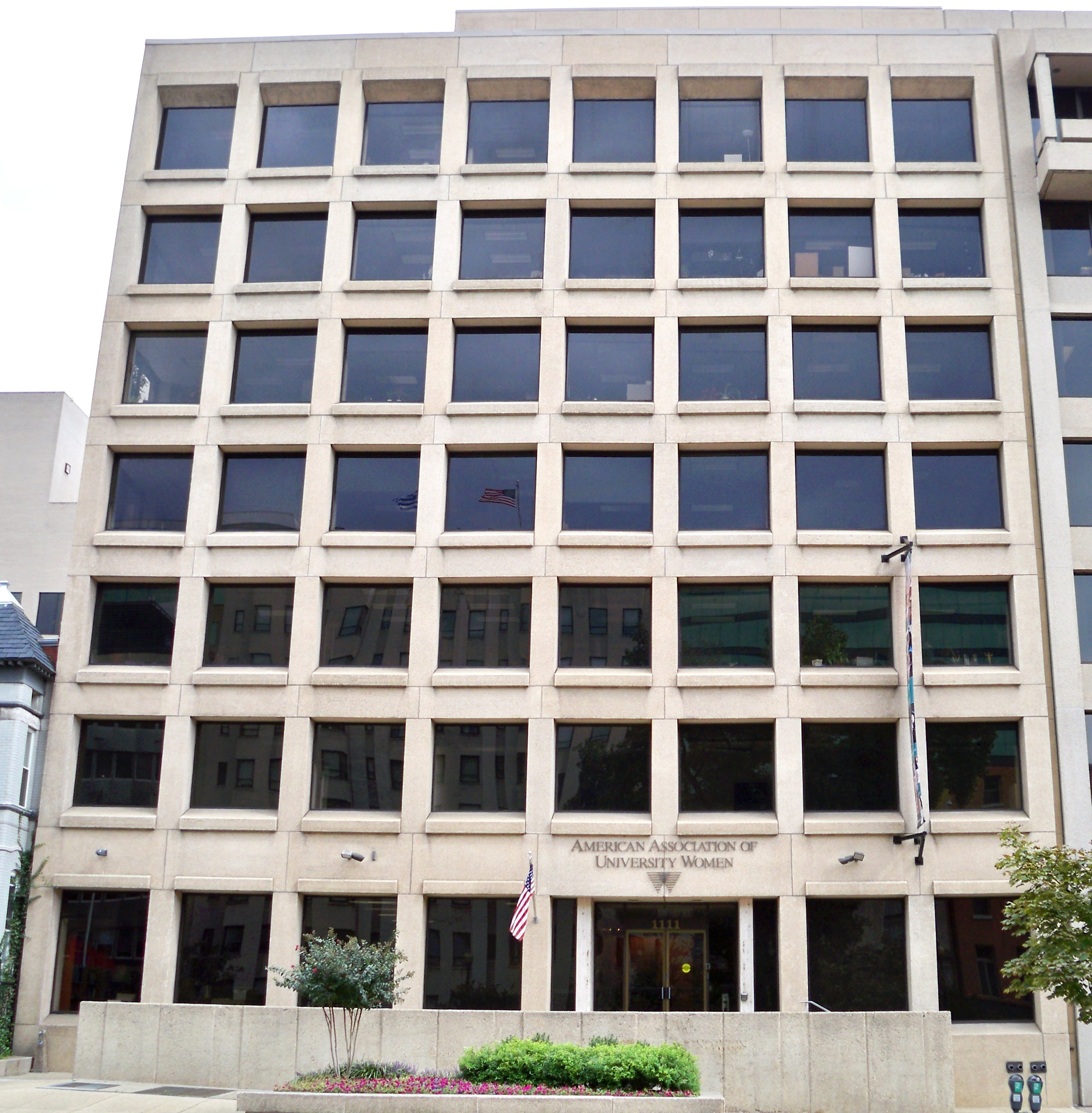 American Association of University Women headquarters in Washington, DC near the White House.